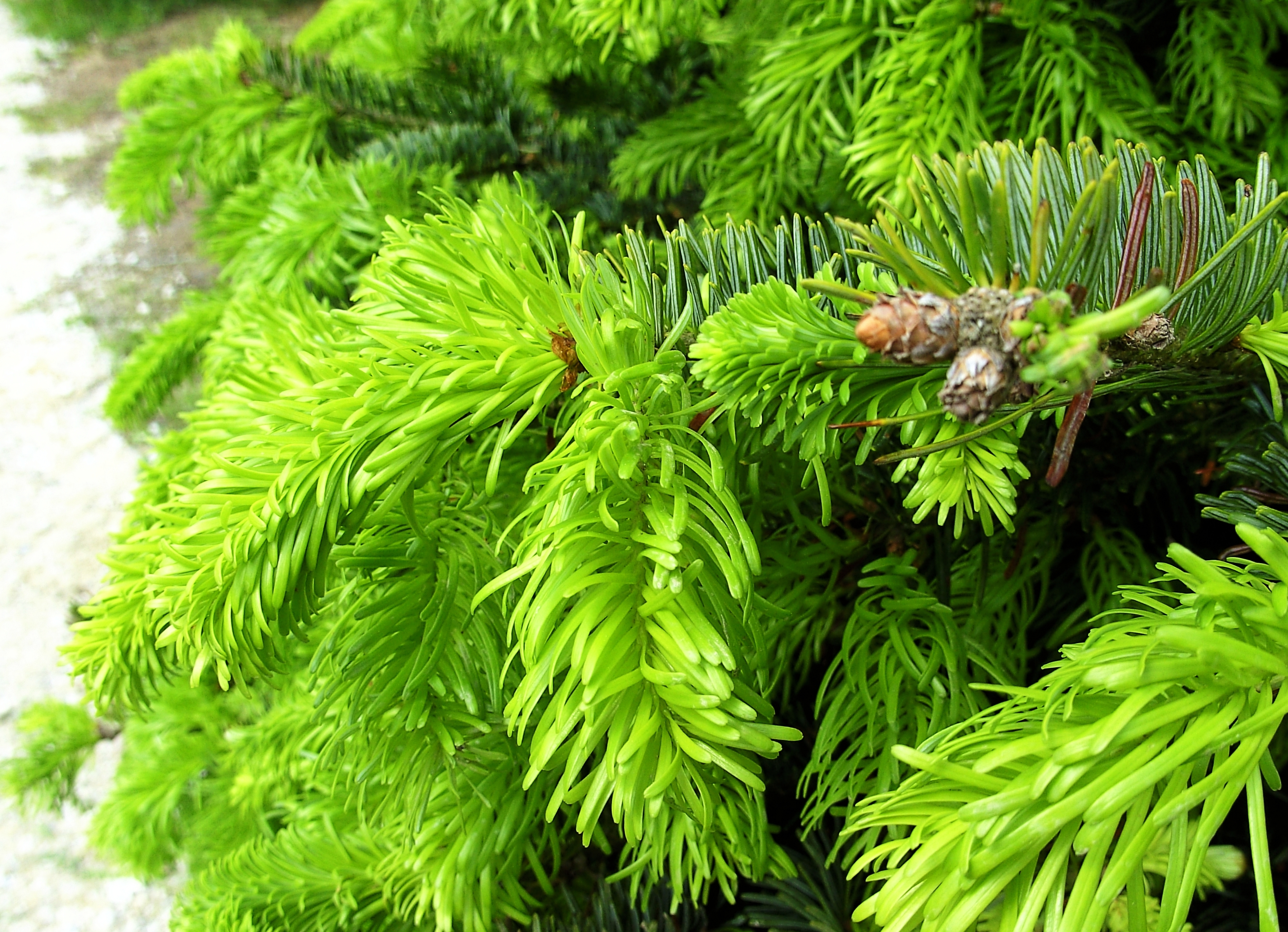 New shoots of Abies nordmanniana.